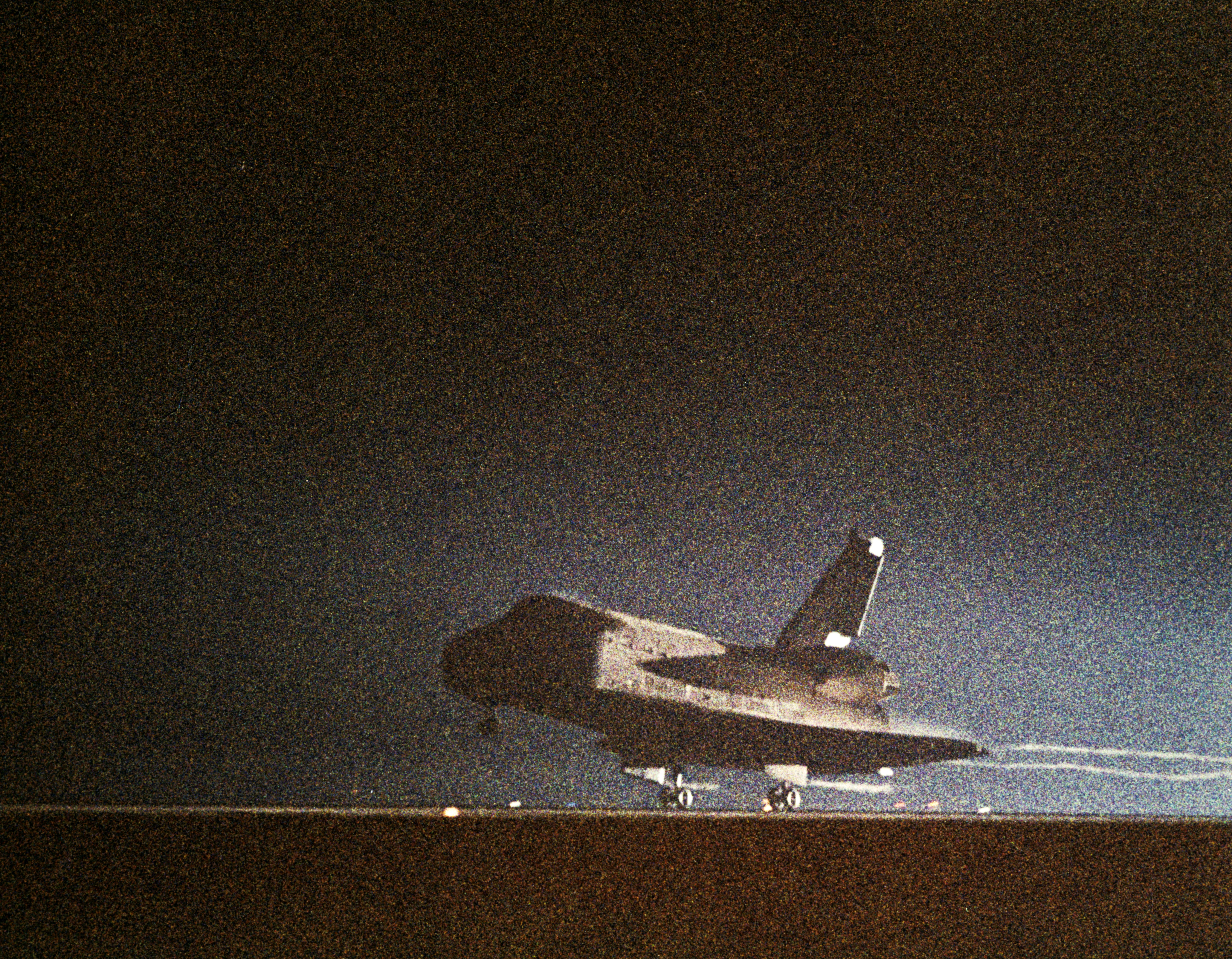 STS61C-S-050 (18 Jan. 1986) --- This NASA photo records the night landing of space shuttle Columbia at Edwards Air Force Base and end of the STS 61-C mission. View is of the shuttle's main landing gear touching down, with streams of light trailing behind the orbiter.